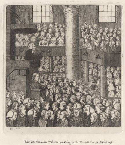 Caricature showing Alexander Webster (1708-1784) preaching to a congregation ironically filled with people who were known to attend church rarely.